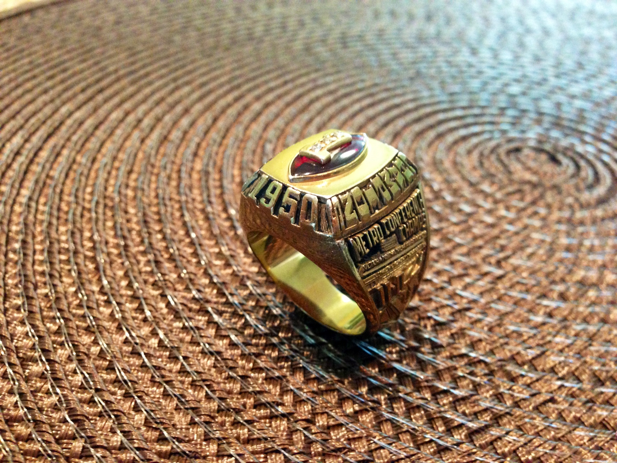 The 1950 LBCC Vikings National Champions Ring. Football- Metro Conference Champions